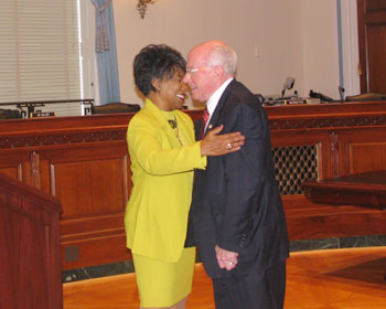 At a hearing during the 109th Congress, then-Chairman Vernon J. Ehlers greets then-Ranking Member Juanita Millender-McDonald. Ranking member Millender-McDonald is greeted by Chairman Vern Ehlers at a hearing of the House Administration Committee. Chairman Ehlers greets Ranking Member Juanita Millender-McDonald at a hearing of the House Administration Committee.